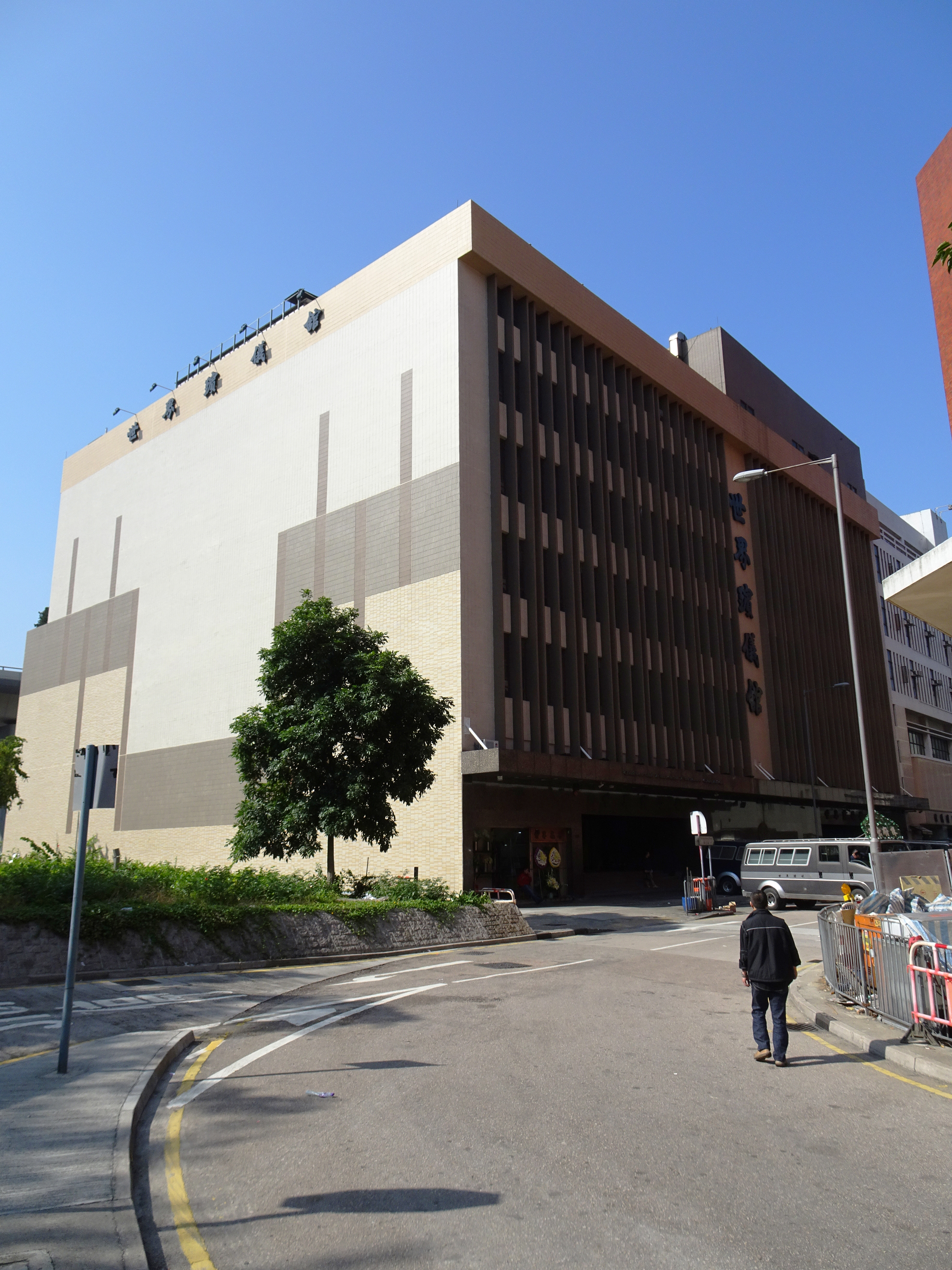 Universal Funeral Parlour in Hung Hom, Hong Kong.